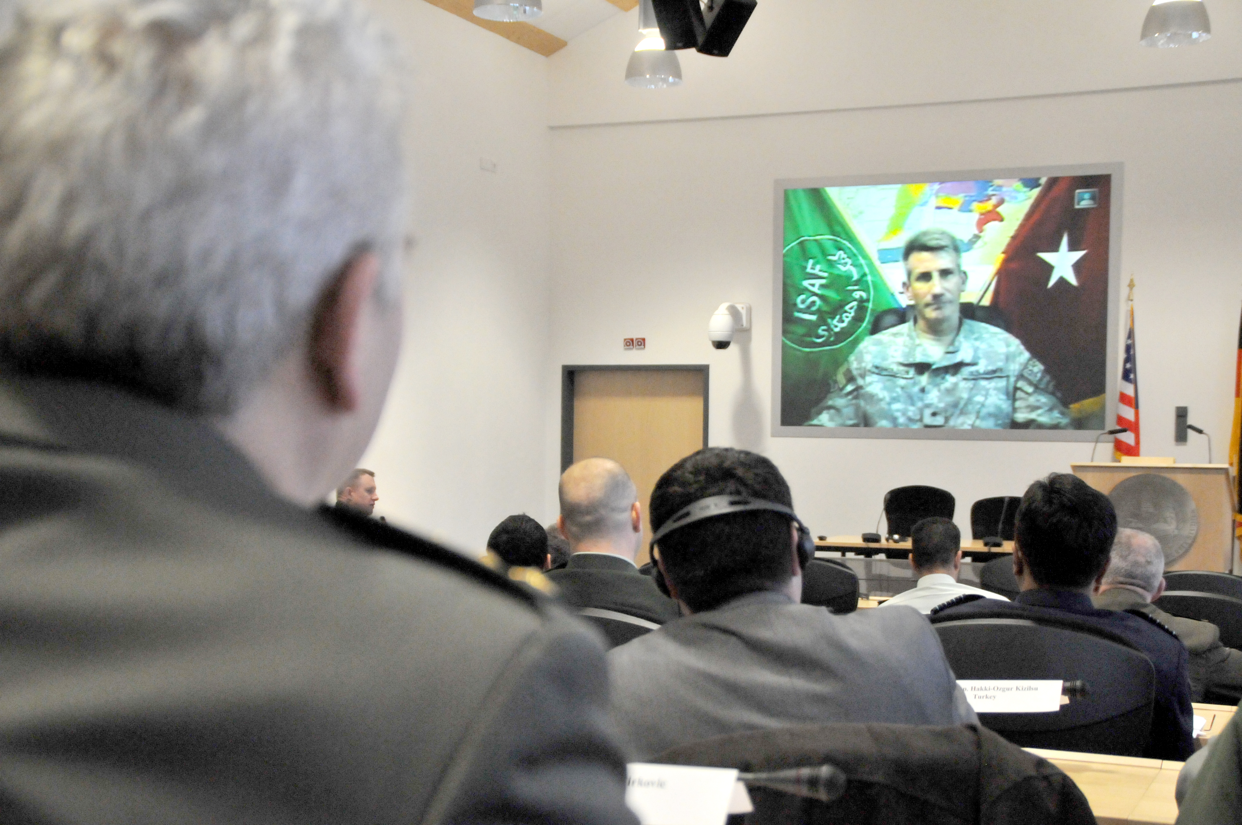 Participants of the Marshall Center's Program for Security, Stability, Transition and Reconstruction (SSTaR) had a first-hand opportunity to learn about reconstruction during a video tele-conference with Brig. Gen. John Nicholson, Jr. March 11, 2009.